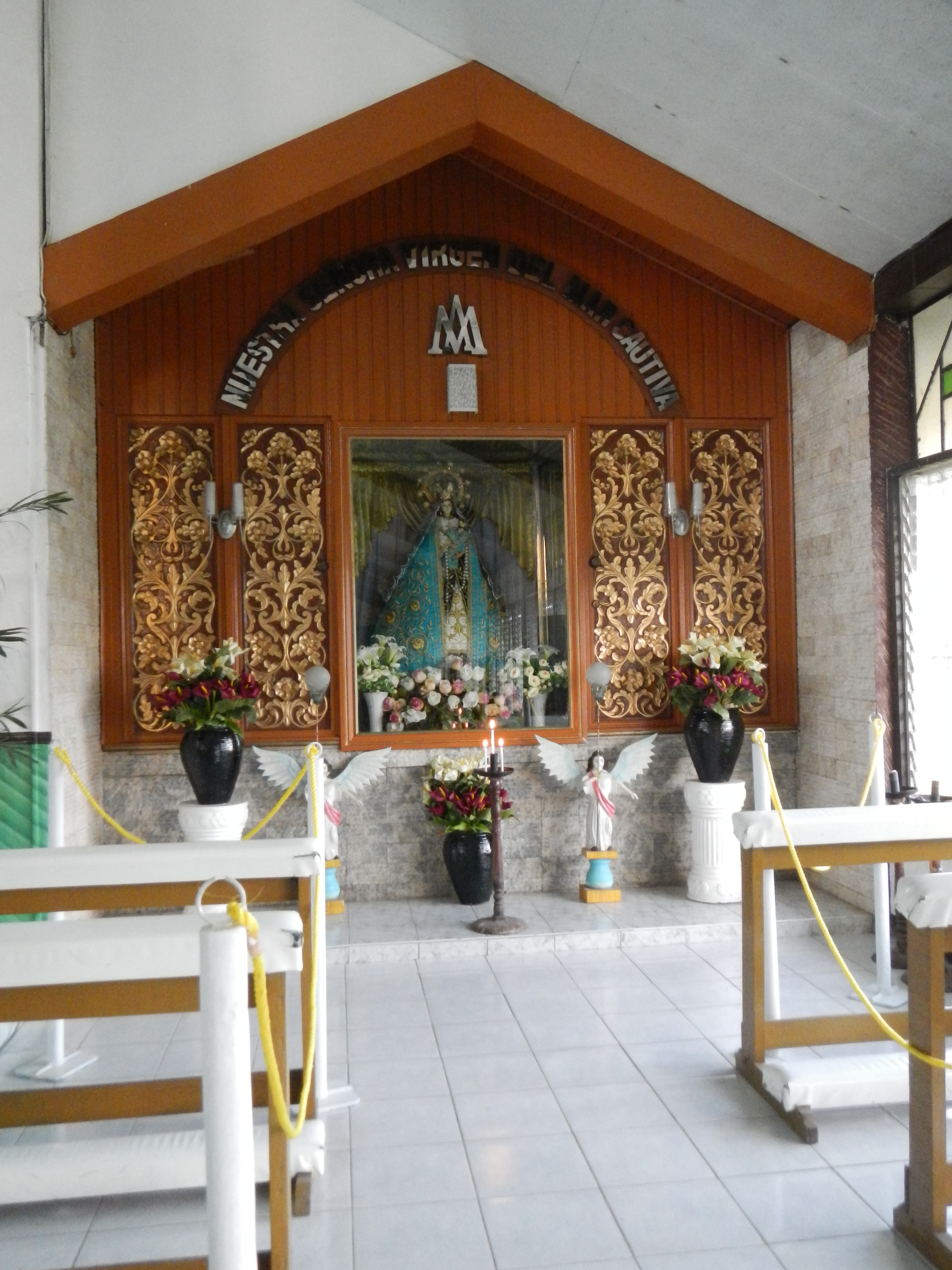 1785 Holy Guardian Angels, October 2 (Shrine of Nuestra Señora del Mar Cautiva) Parish Church Sto. Tomas (F-1785): 2505 La Union, Philippines Titular: Parish Priest: Father Raul S. Panay[1] Vicariate of St. Francis Xavier Vicar Forane: Father Raul S. Panay[2] Roman Catholic Diocese of San Fernando de La Union Santo Tomas, La Union[3][4]